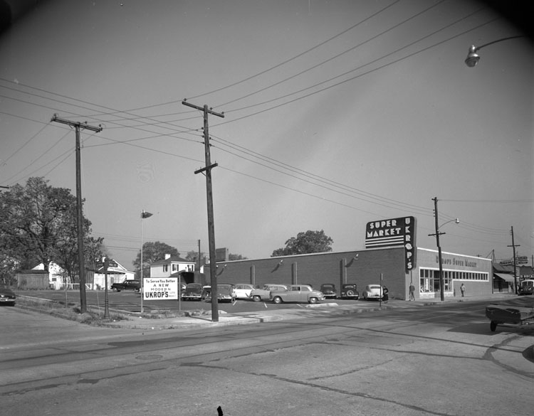 Title: Ukrops Market, 3600 Hull Street Creator: Adolph B. Rice Studio Date: November 11, 1953 Identifier: Rice Collection 201B Format: 1 negative, safety film, 4 x 5 in. Repository: Library of Virginia, Prints and Photographs, 800 E. Broad St., Richmond, VA, 23219, USA, :8881/R